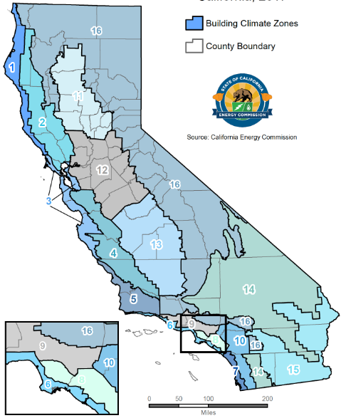 It is taken from California Energy Commission website